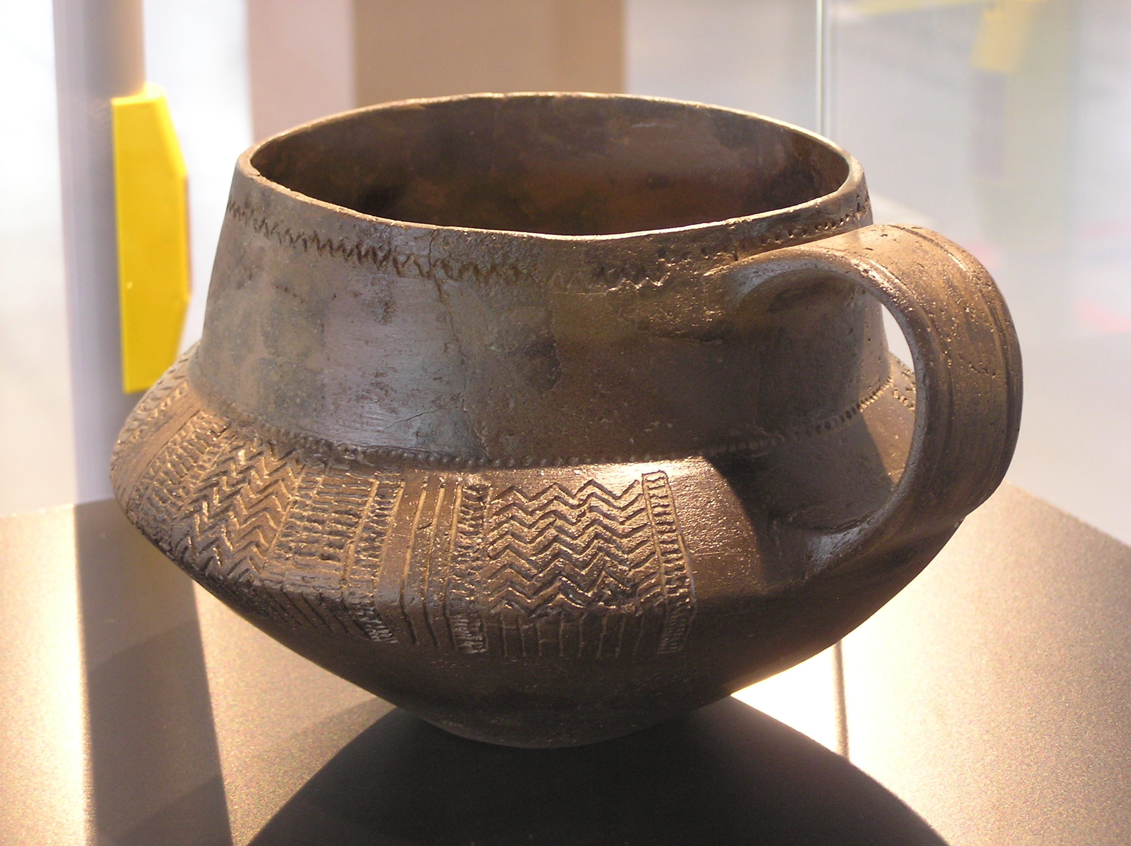 Early neolithic mug found in a tumulus at Fischbeker Heide, Neugraben-Fischbek, Hamburg, Germany.